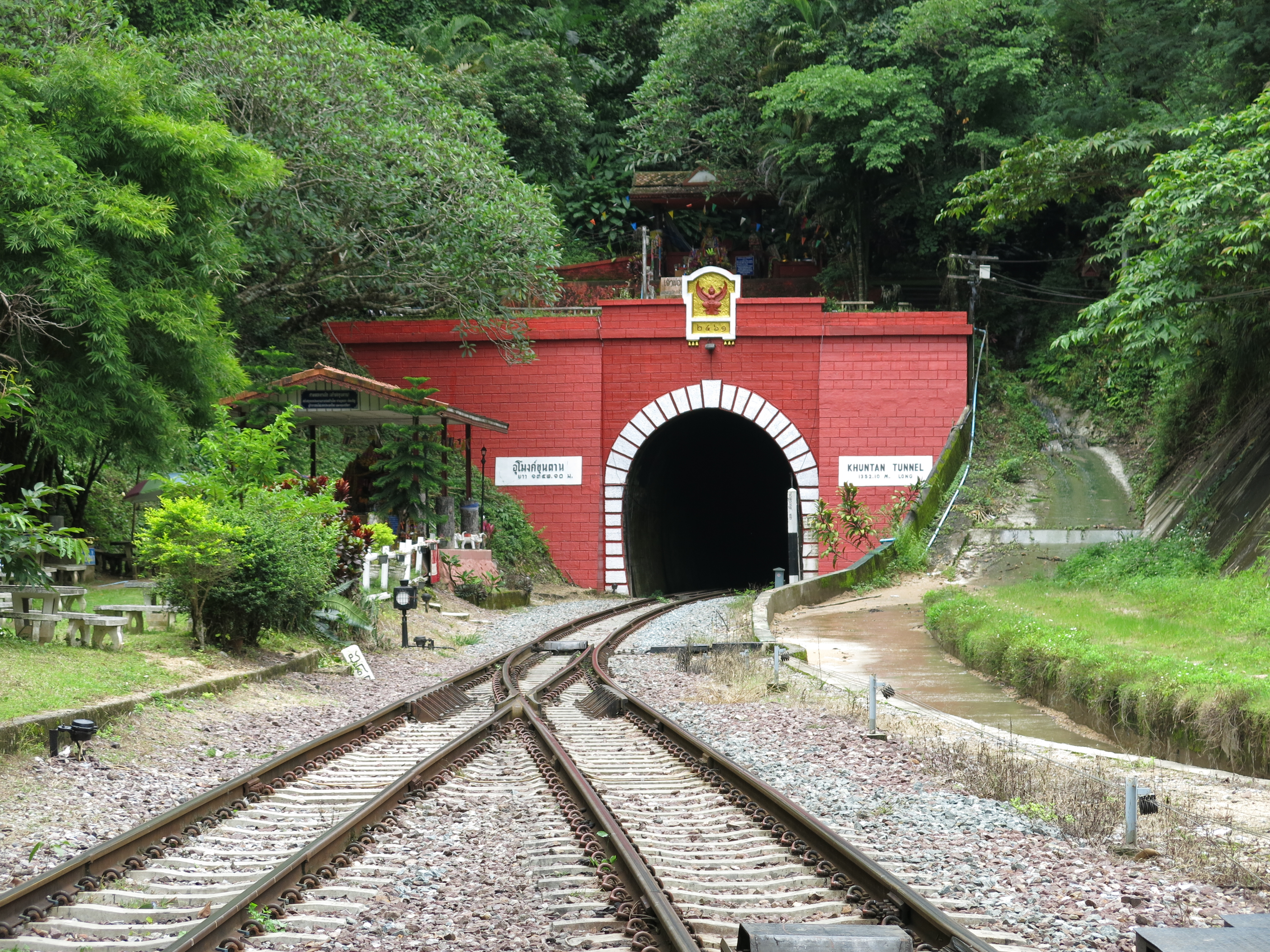 The north western portal at Khun Tan, Lampang-Lamphun - image by Mark Robinson